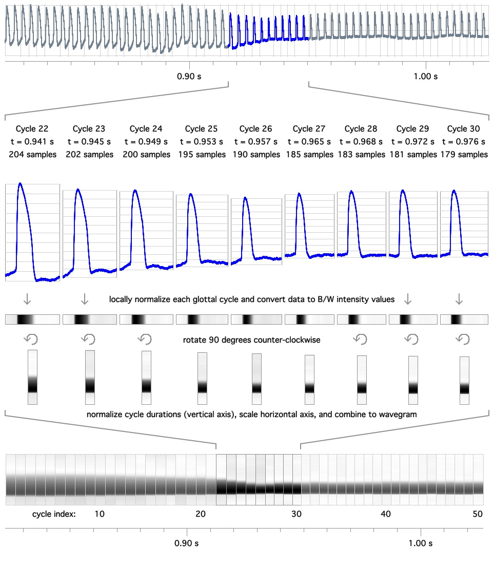 How to create an electroglottographic wavegram: (a) extraction of consecutive glottal cycles from the EGG signal; (b) locally normalized data values are converted into monochrome color information, and are plotted as a strip representing one glottal cycle each; (c) strips are rotated 90 degrees counter-clockwise; (d) Glottal cycle duration is normalized by scaling the individual glottal cycle plots to the same height; (e) the resulting graphs are combined to form the final display, the EGG wavegram.